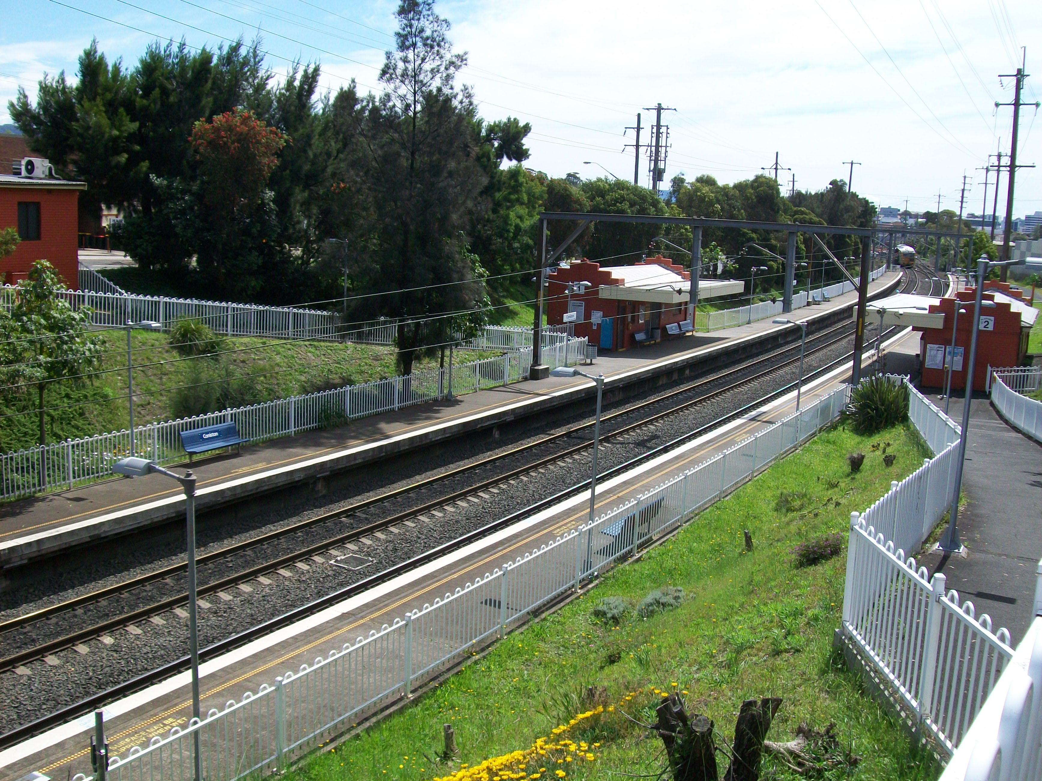 Coniston Railway station